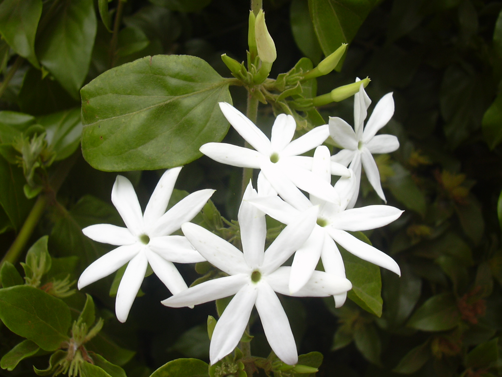 Jasminum multiflorum (flowers). Location: Maui, Haliimaile